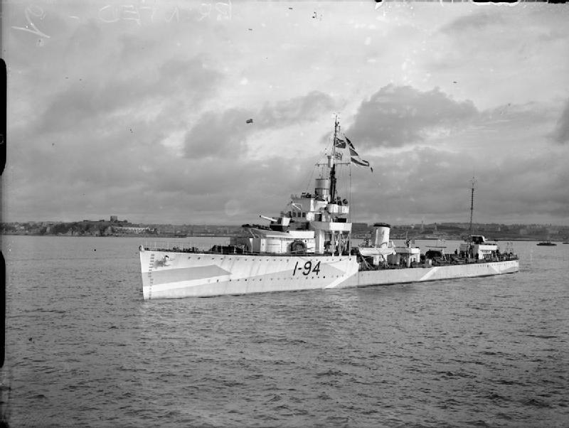 The British destroyer HMS}Whitehall|I94 underway in coastal waters during World War II.